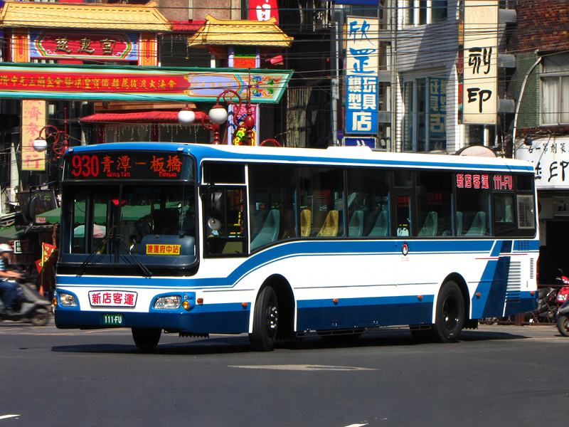 Xindian 925